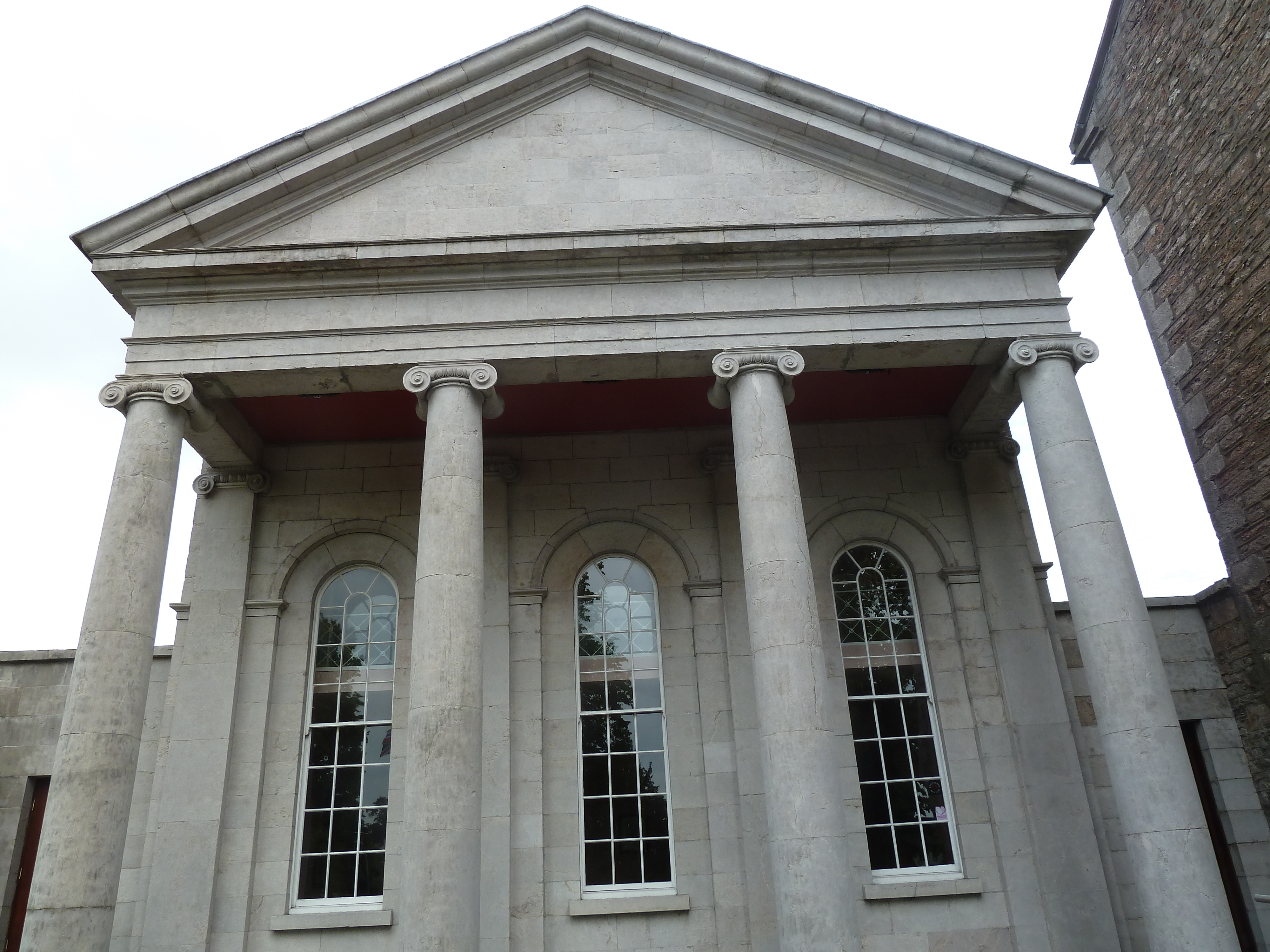 Neoclassical front of Museum, Armagh, Ireland July 2013